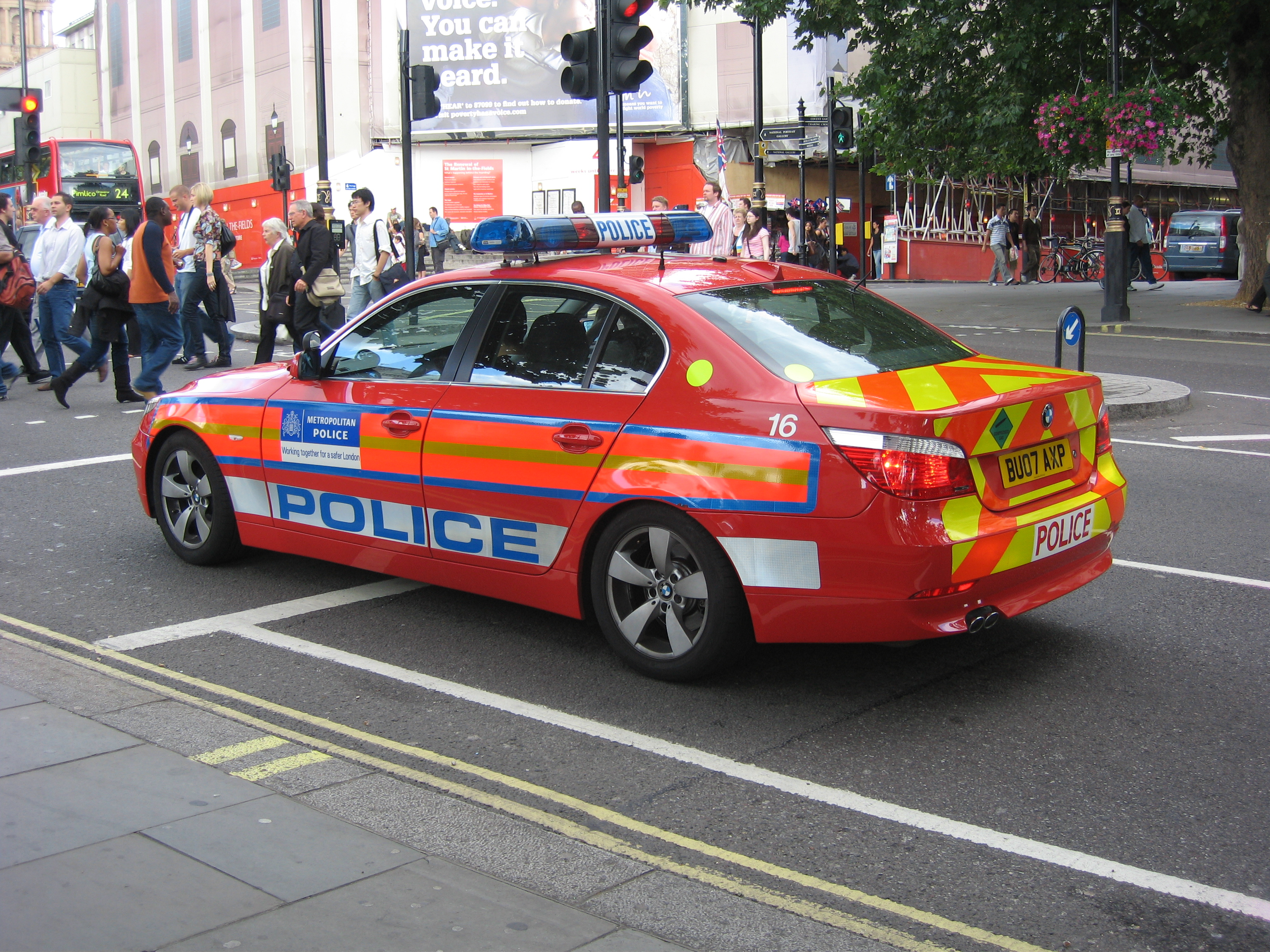 Car of Diplomatic Protection Group London. (Taken on Charing Cross Road).